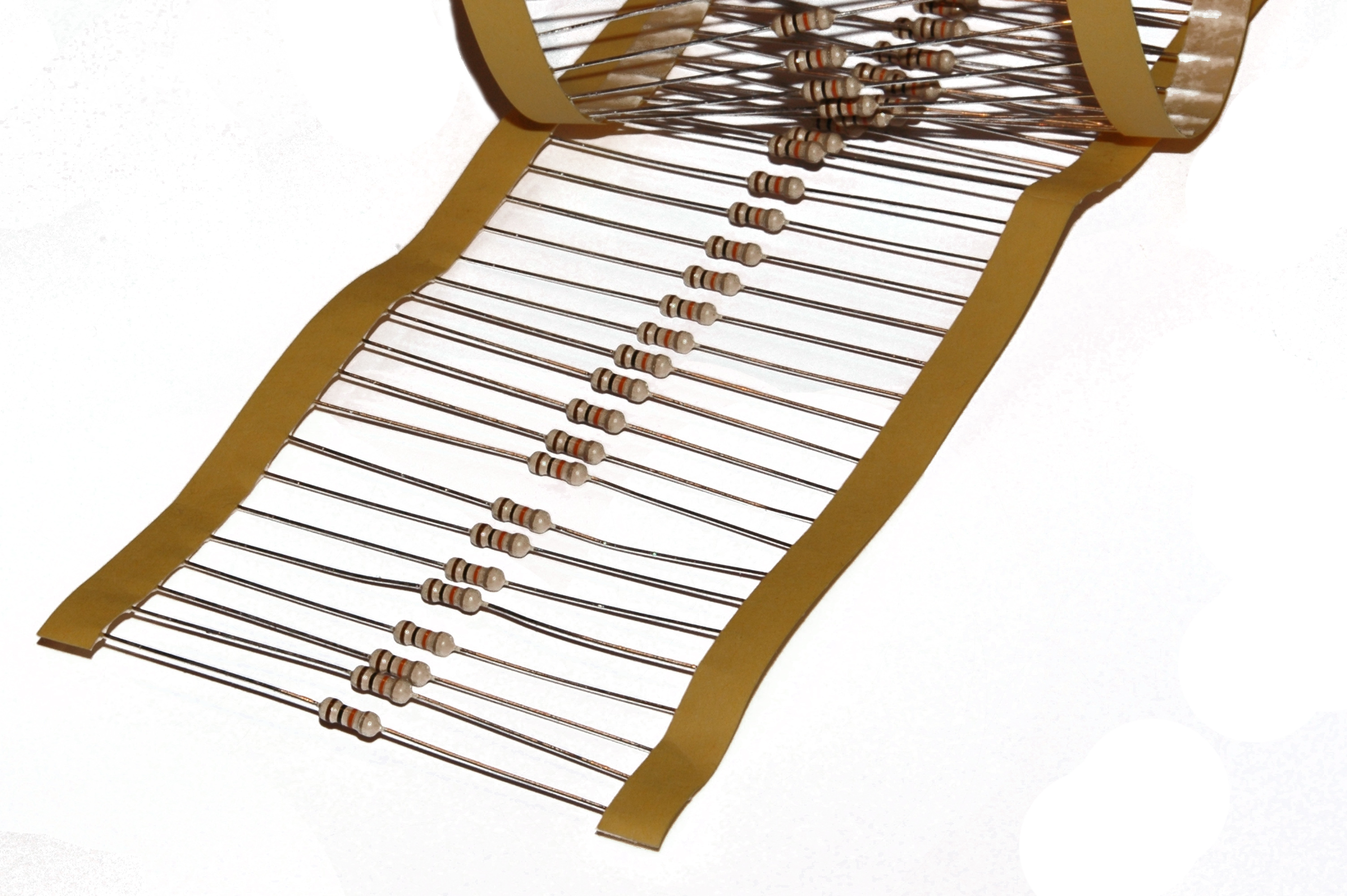 Axial-lead resistors packaged on tape. The tape is removed before assembly of the circuit. These are 1KΩ resistors with a power rating of 0.25W.